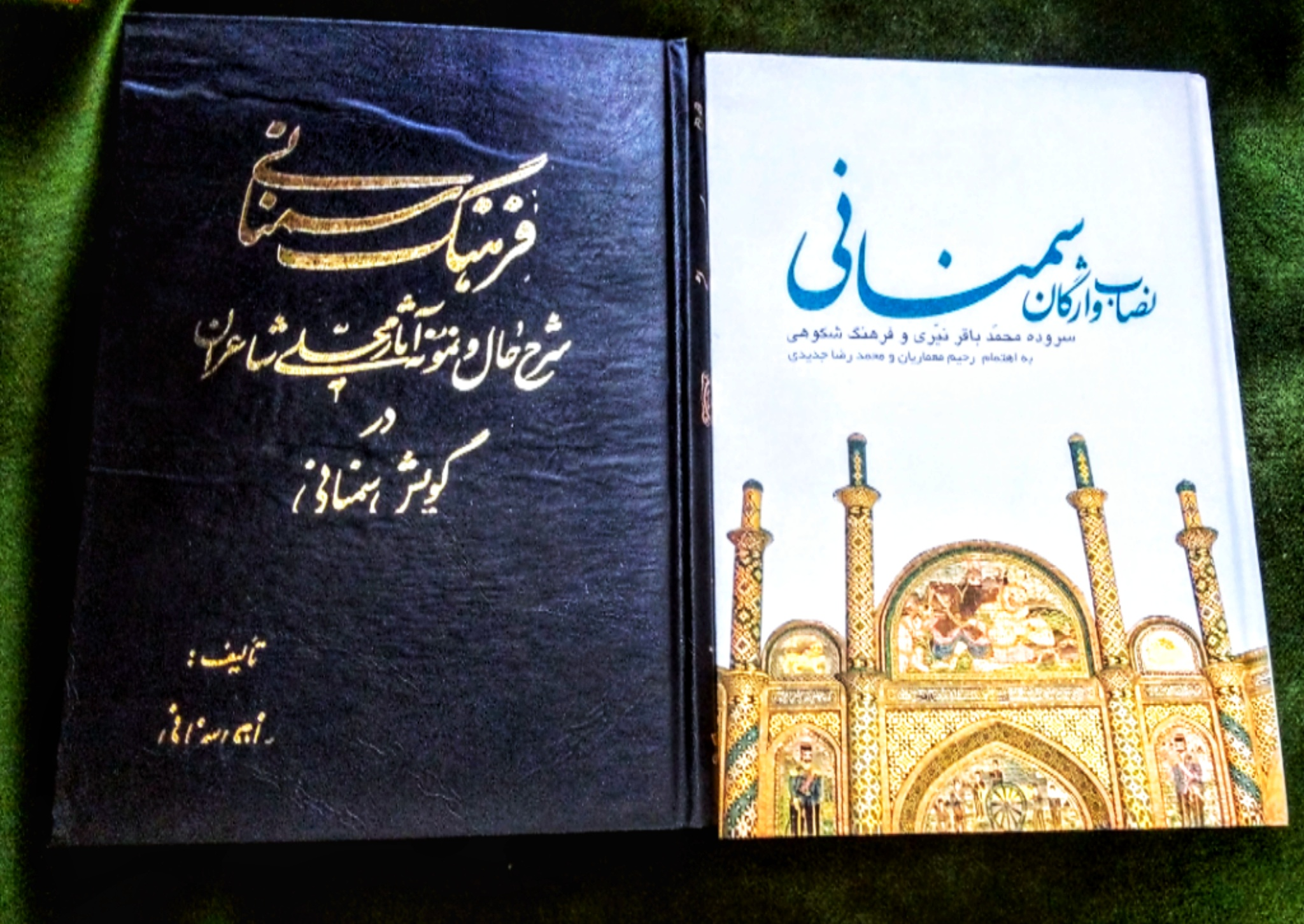 Photo of two Semnani books